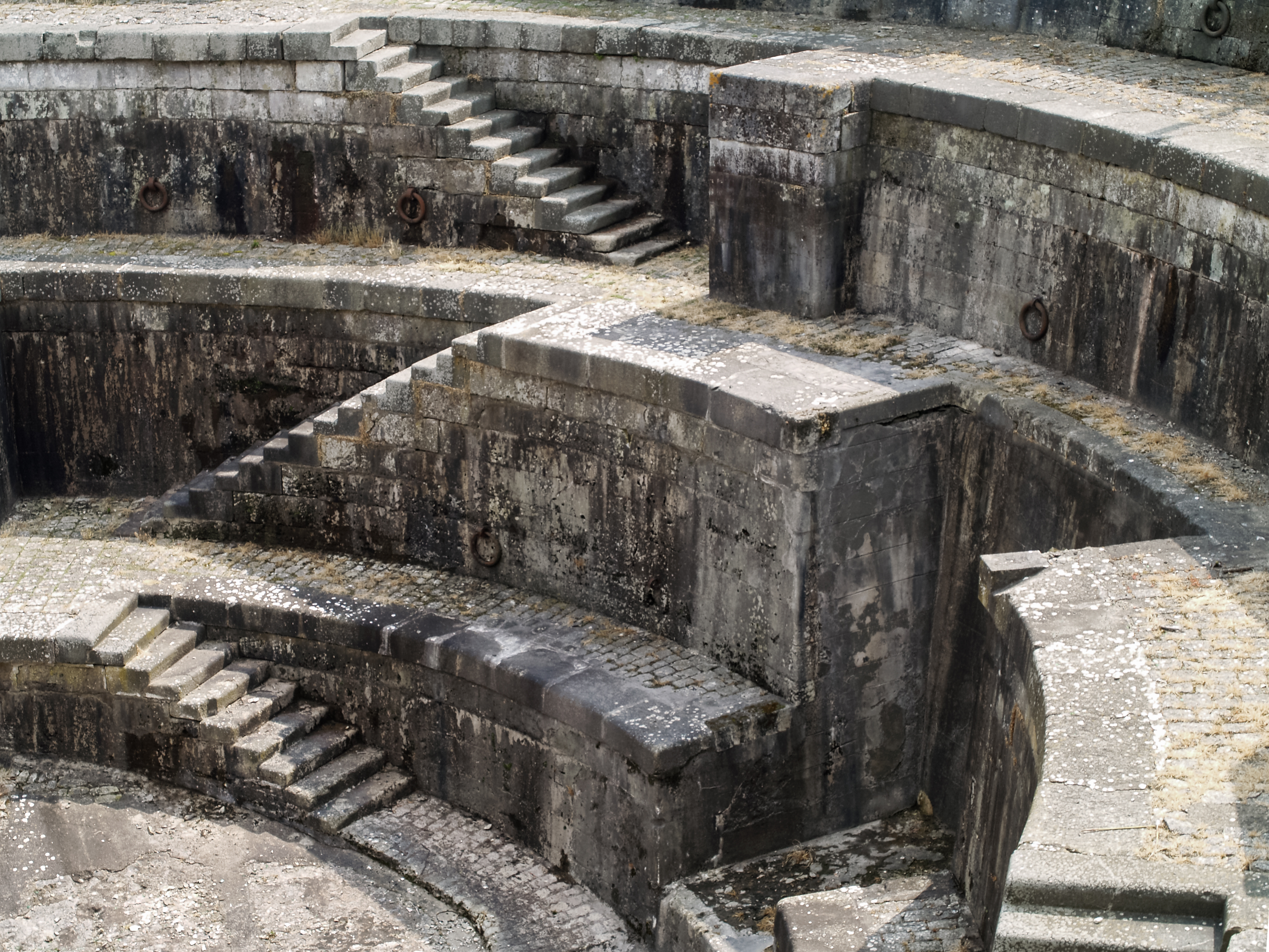 Rochefort (Charente-Maritime, France) - Detail of a staircase in one of the the original twin dry docks known as or the “double forme” or the “Louis XV Dry Dock”, designed in the 17th century.